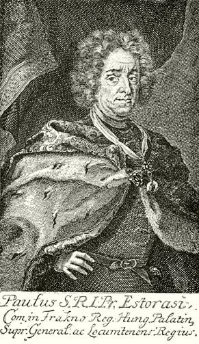 Paul I, 1st Prince Esterházy of Galántha